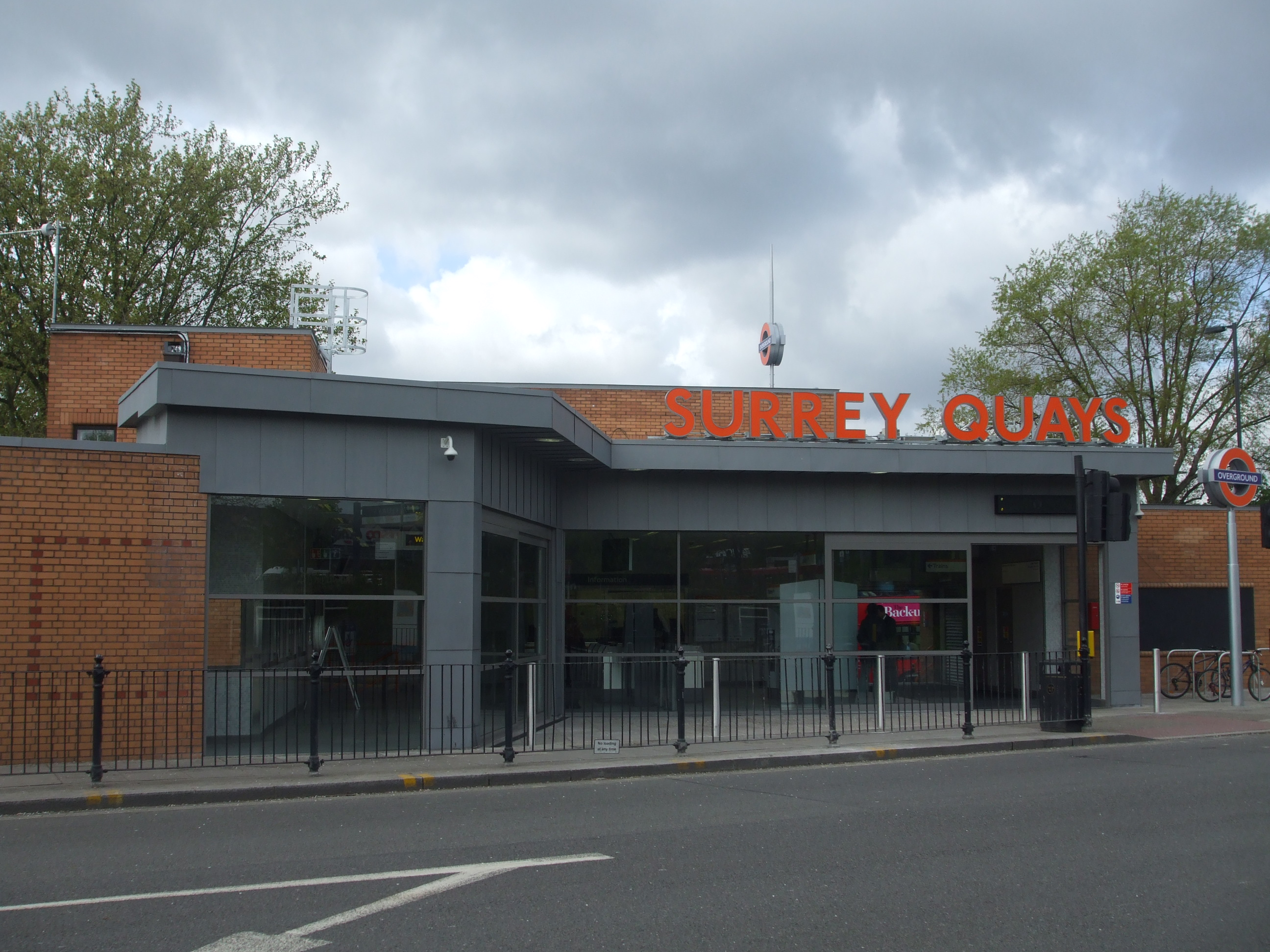 Surrey Quays main entrance on Lower Road a few days after re-opening as part of the London Overground in April 2010.